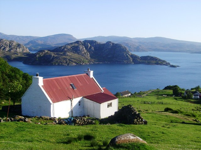 Rubha na h-Airde